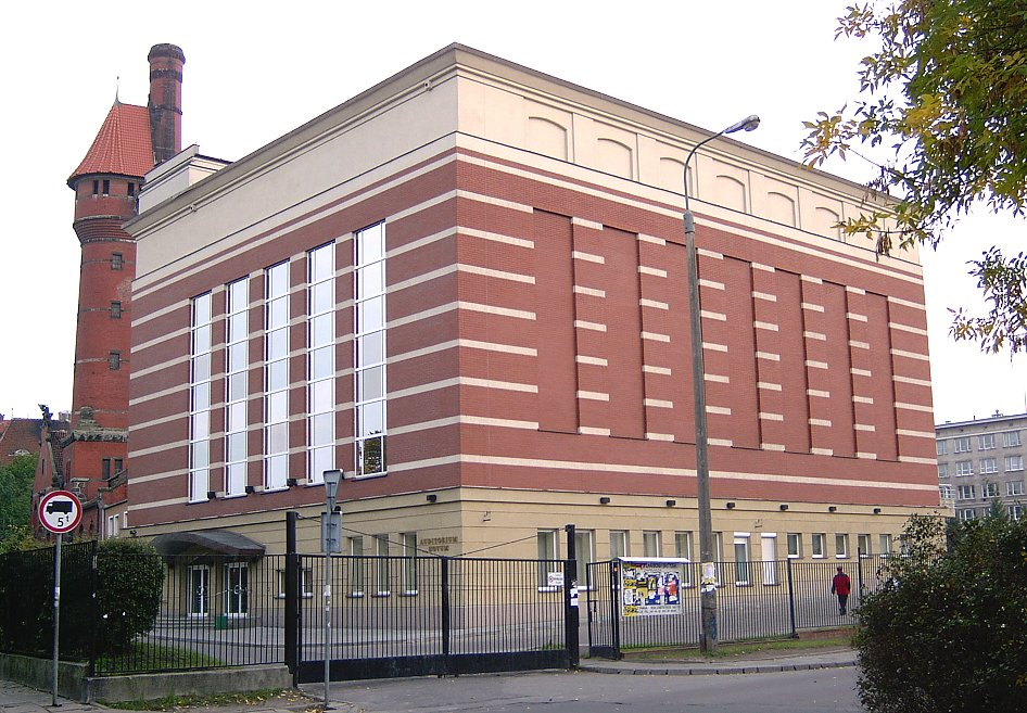 Gdansk University of Technology in Gdansk, Poland - Auditorium Novum